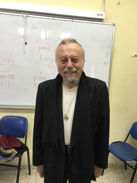 Bulgarian-Israli actor Albert Cohen visiting a school in tel aviv